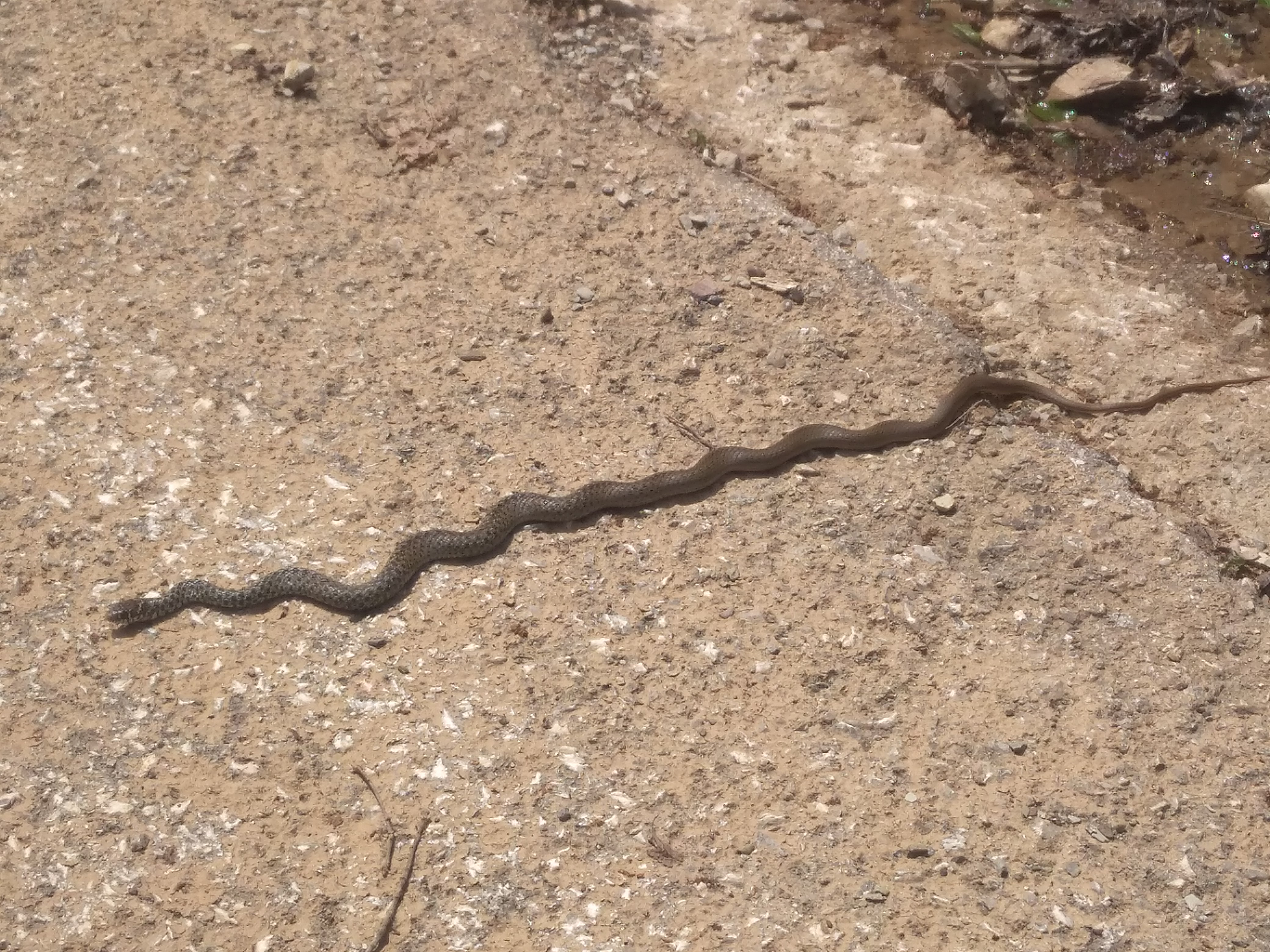 Ἀρχαία ἑλληνικὴ: Hierophis gemonensis in mountain Pindus, Greece